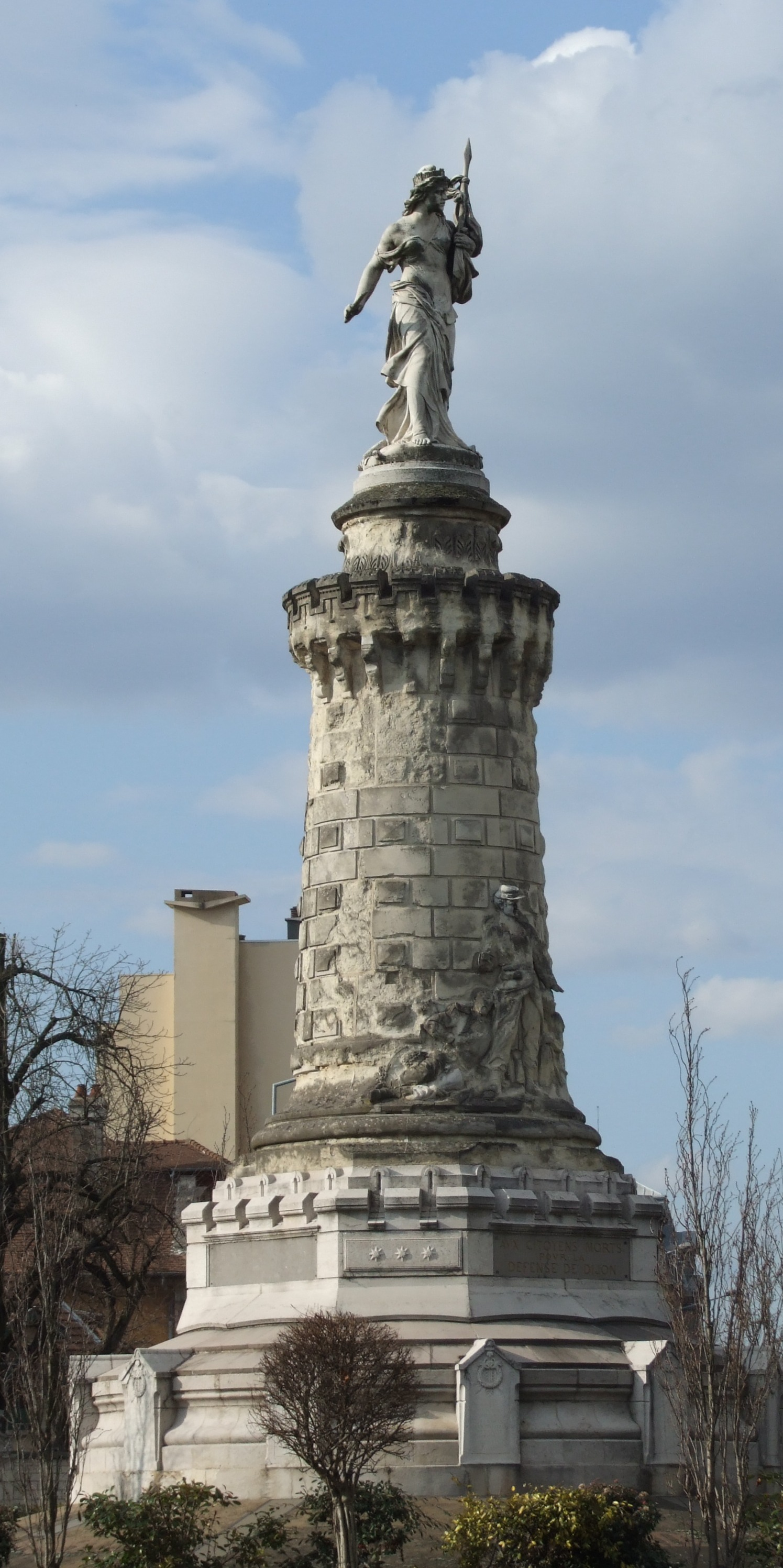 30th October place, Dijon, Burgundy, FRANCE